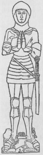 Drawing of monumental brass in St Willow's Church, Lanteglos-by-Fowey, Cornwall, of Thomas Mohun (d.circa 1440) of Hall, Lanteglos.